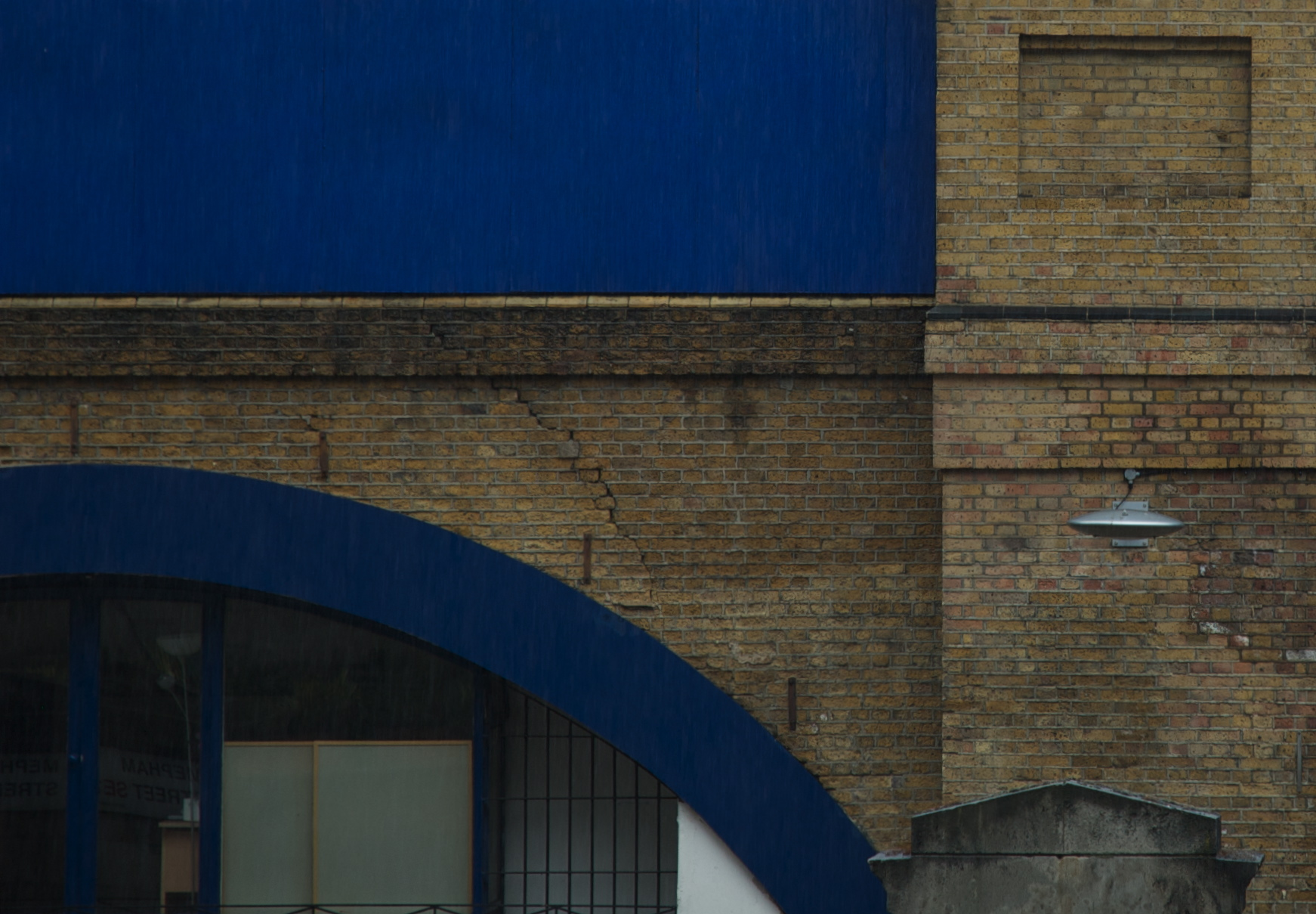 A wall of London stock bricks outside Waterloo station - in Mepham Street: approaches to Waterloo East railway station